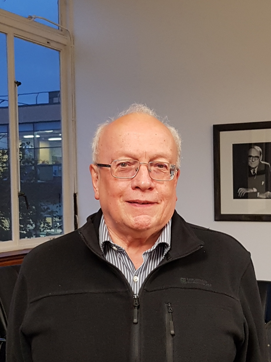 Malcolm Bolton, British engineering professor, at Cambridge University Engineering Department, October 2019